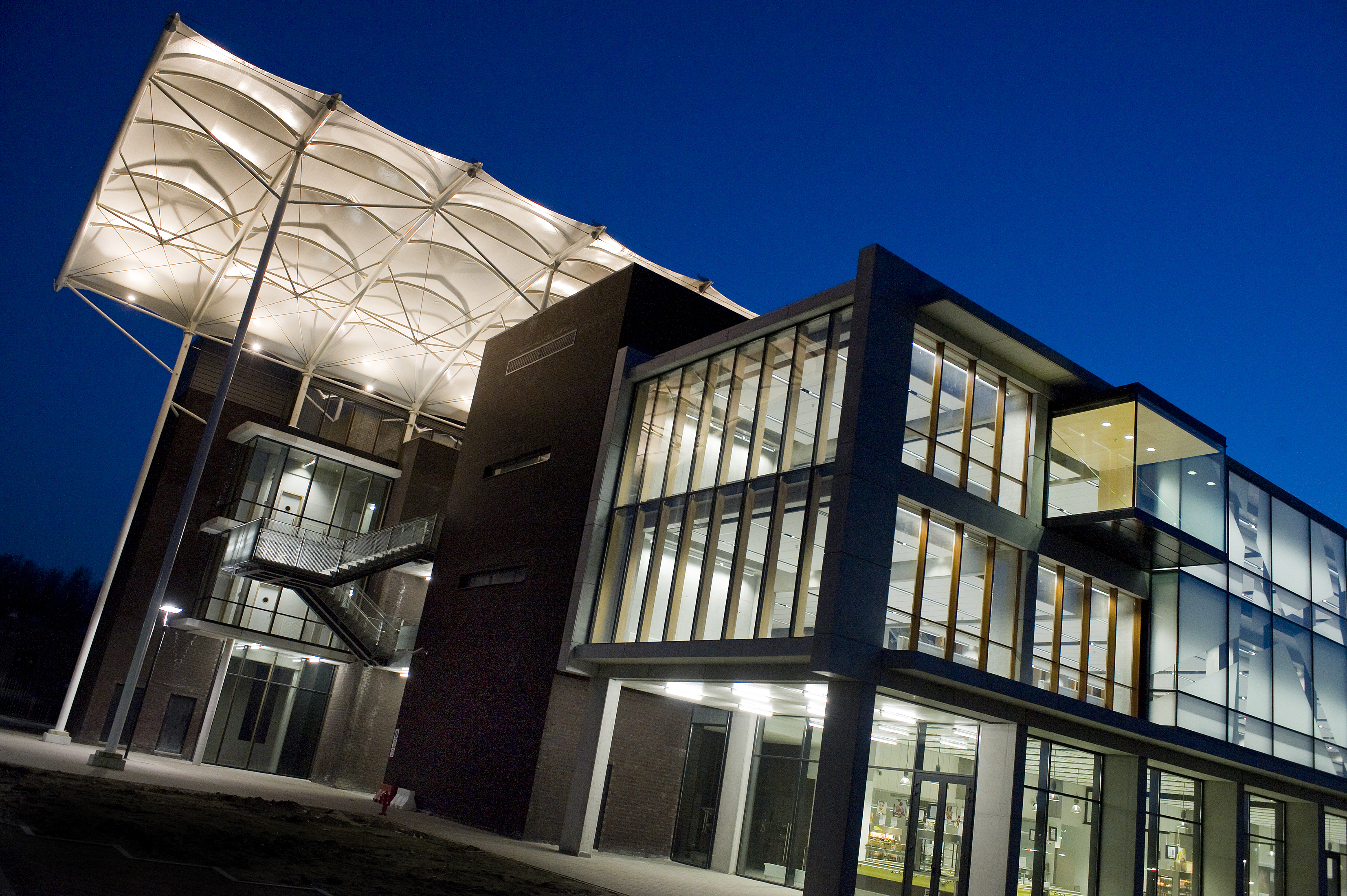 D-building at campus Schoonmeersen of University College Ghent